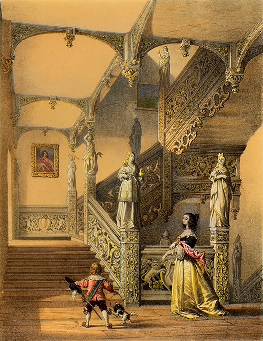 Monochrome lithograph of staircase in Aldermaston Manor, Berkshire